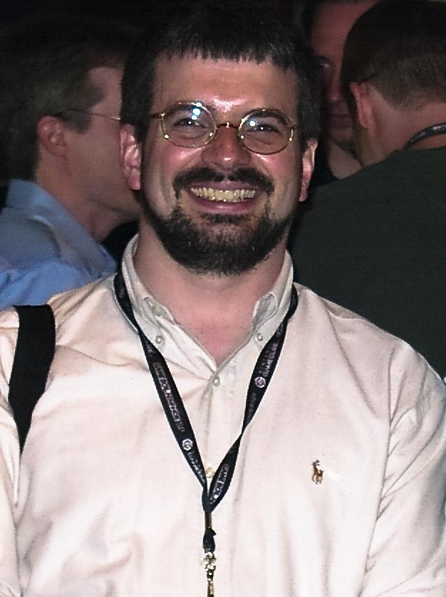 Brian Reynolds, former CEO of Big Huge Games